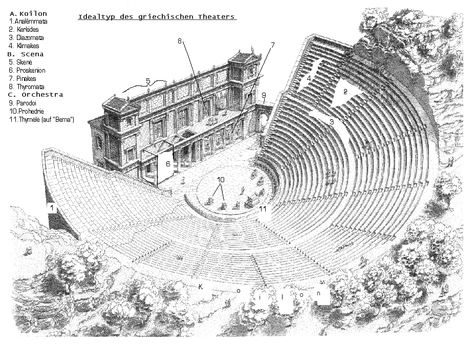 Reconstruction of a Greek Theatre